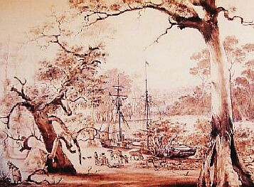 The Enterprize at the site of Melbourne, 1835.